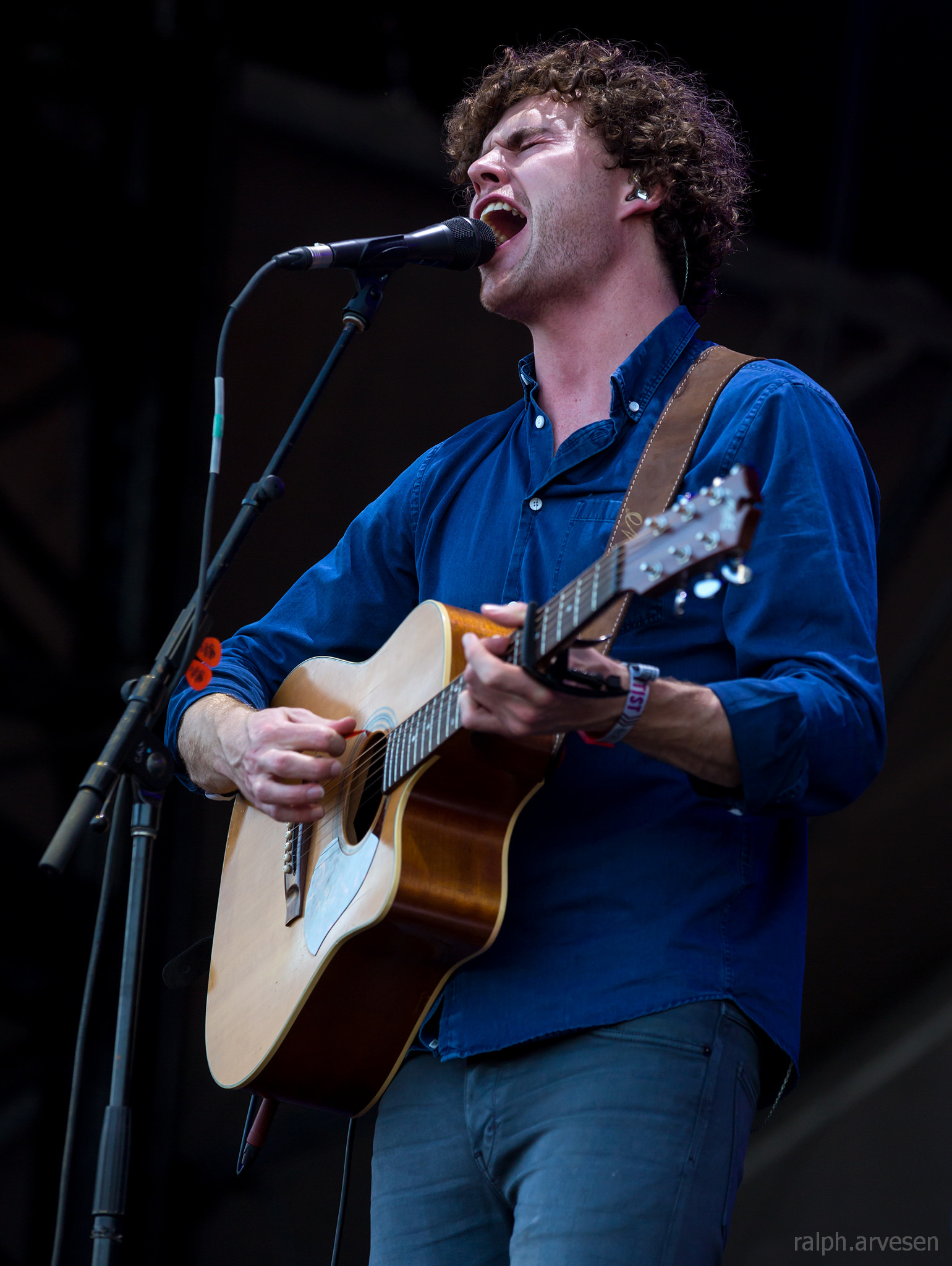 Vance Joy. Austin City Limits Music Festival overview from Friday, October 9 through Sunday, October 11, 2015.